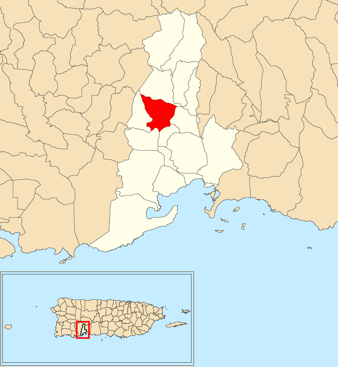 Llano, Guayanilla, Puerto Rico locator map